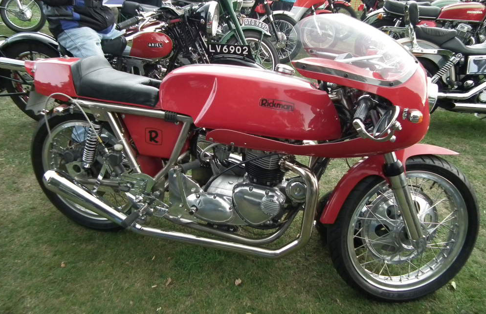 Rickman Triumph Cafe racer